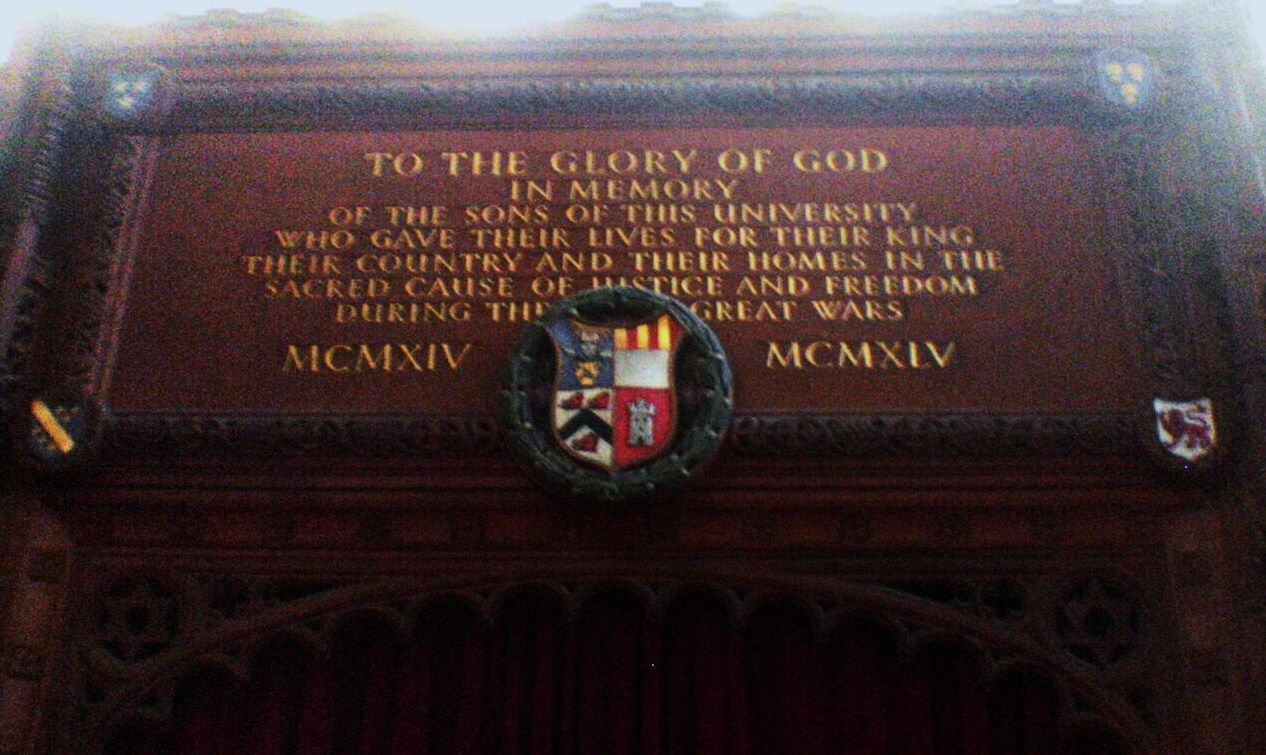 Plaque in the antechapel of King's College Chapel at the University of Aberdeen, depicting the arms of the University and the four nations thereof (left to right, top to bottom: Moray, Buchan, Mar and Angus)